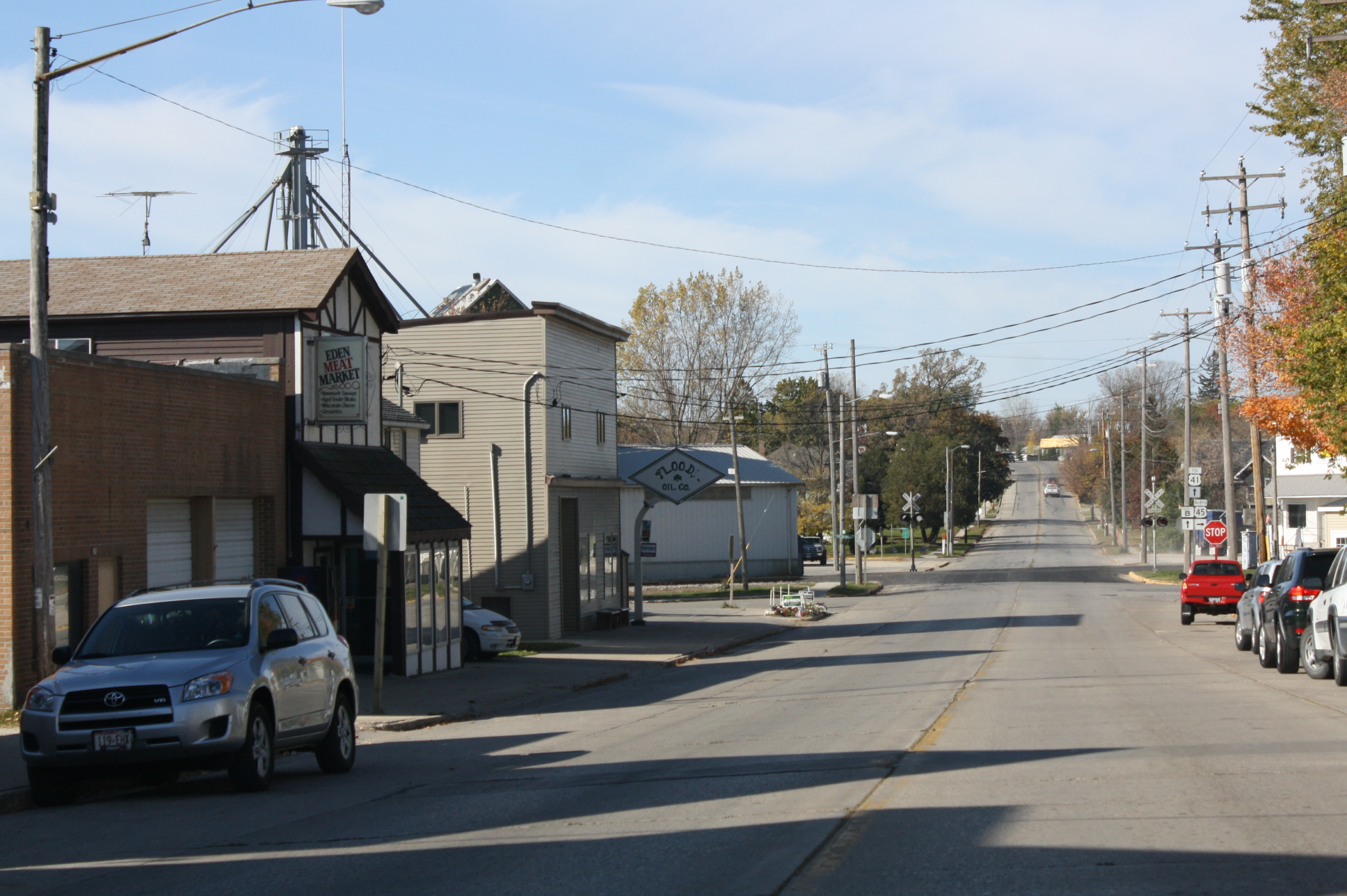 Looking north at downtown Eden, Wisconsin.